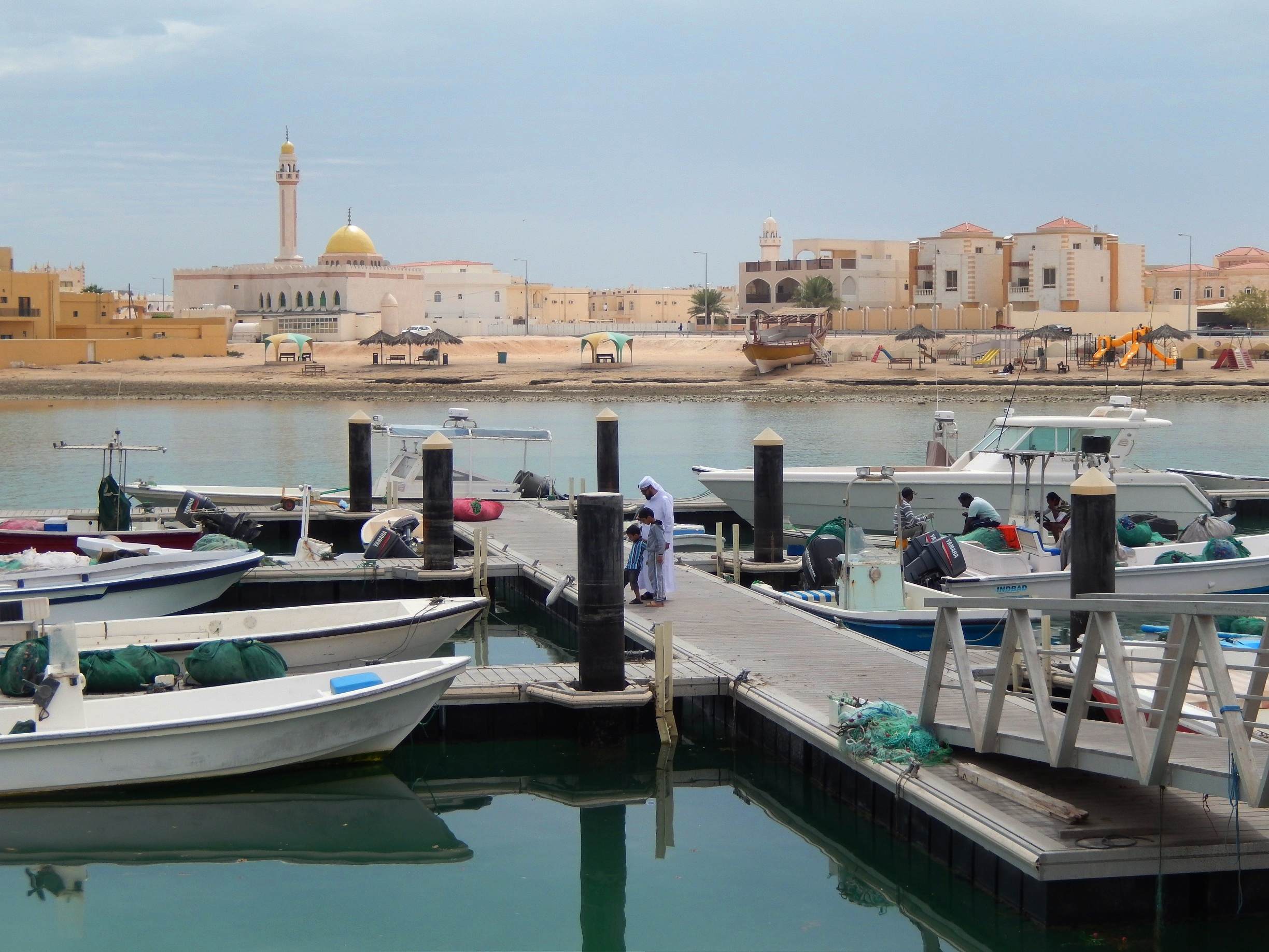 Harbour of Al Khor, with mosque (Qatar).